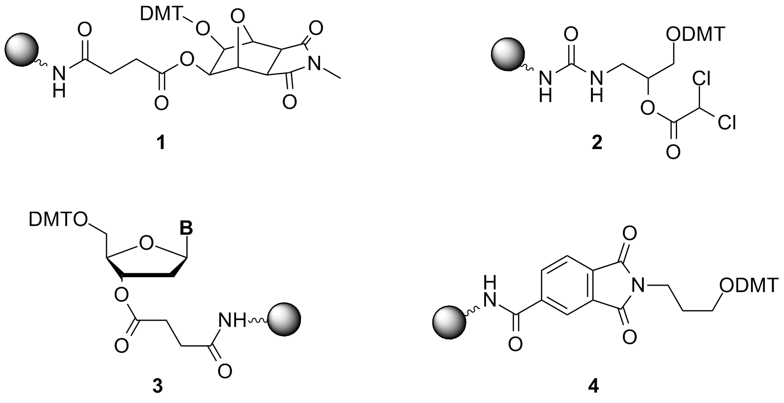 CPG Solid Supports